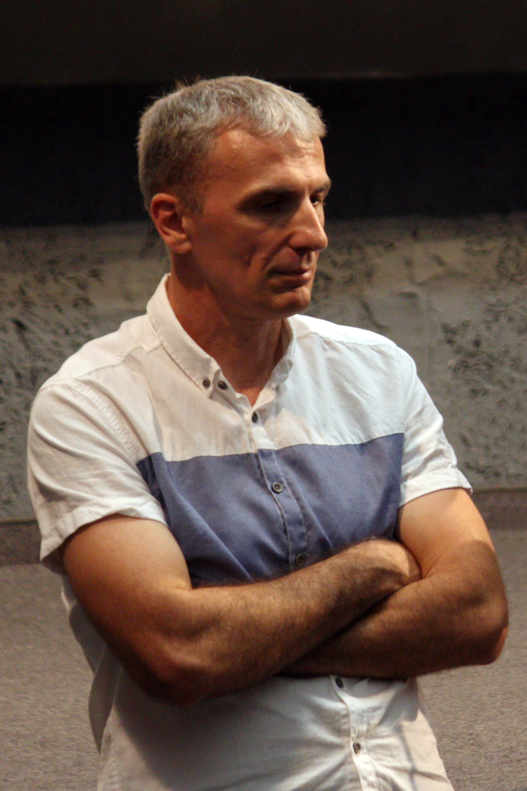 Dragan Jacimovic, 2018